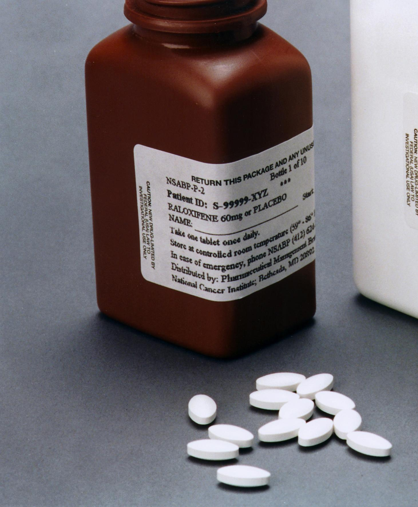 Title: Prevention: Tamoxifen and Raloxifene Description: A variety of photos of pills; bottles of pills; woman with water and pills; hand with pills; cup and pills; boxes of pills. The pills are of the drugs tamoxifen and rolaxifene that are being used in a breast cancer prevention trial (STAR). Subjects (names): Topics/Categories: Prevention -- Drugs Type: Color Print Source: National Cancer Institute Author: Bill Branson (photogr�apher) AV Number: AV-9905-4451 Date Created: May 1999 Date Added: 1/1/2001 Reuse Restrictions: None - This image is in the public domain and can be freely reused. Please credit the source and/or author listed above. cropped to show the drug